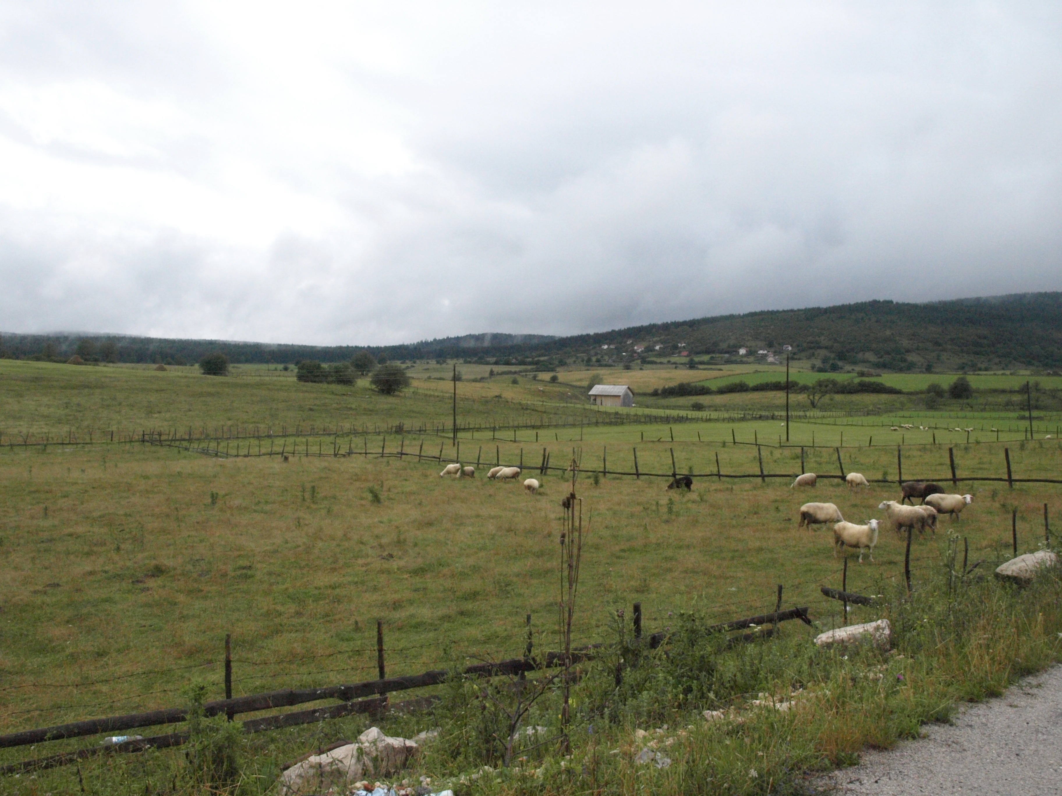 Landscape in the Romanija mountains in Bosnia and Herzegovina